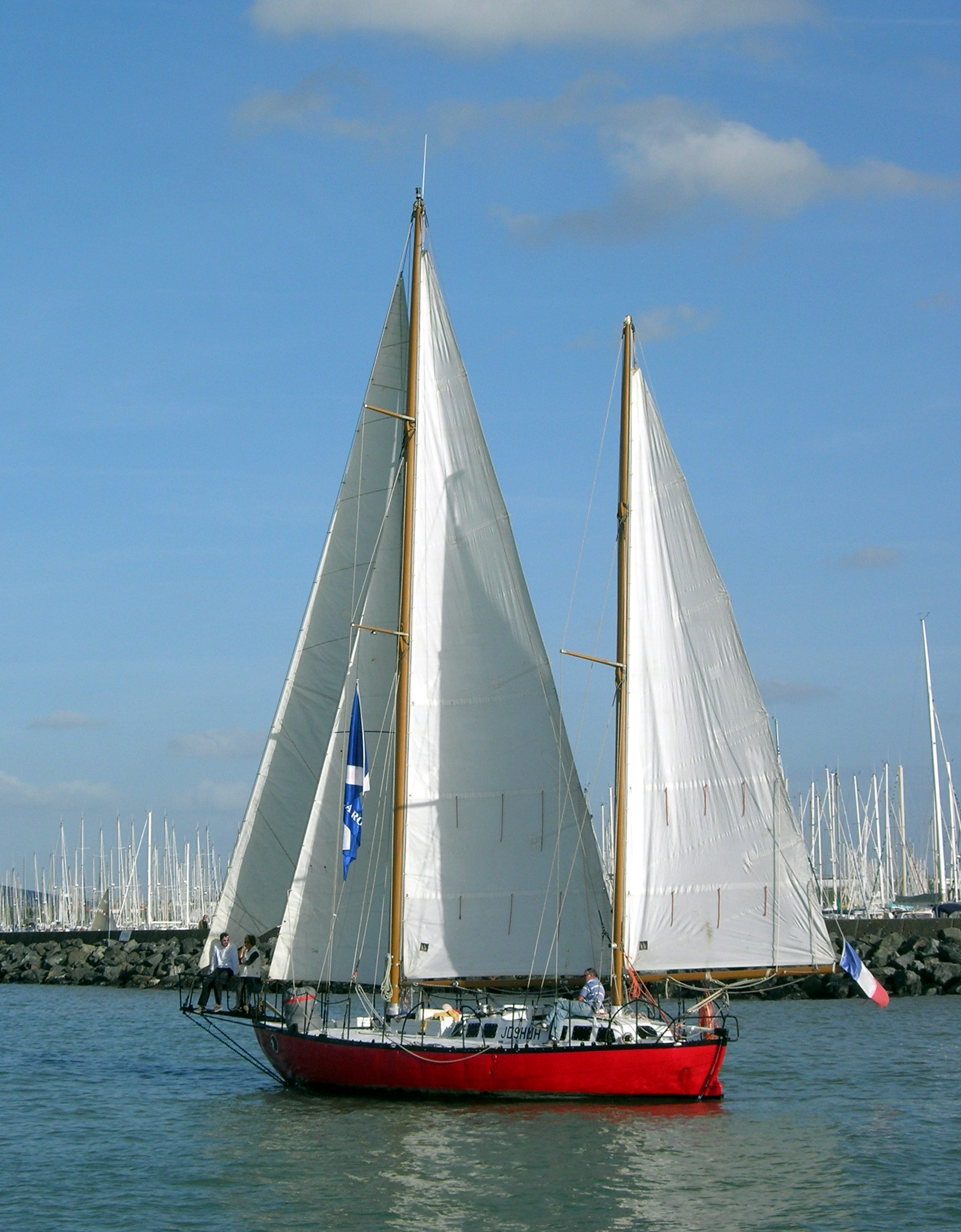 Description =Joshua le bateau de Moitessier au Minimes a la Rochelle Source =Photo taken by Remi Jouan Date =Octobre 2006 Author =Remi Jouan